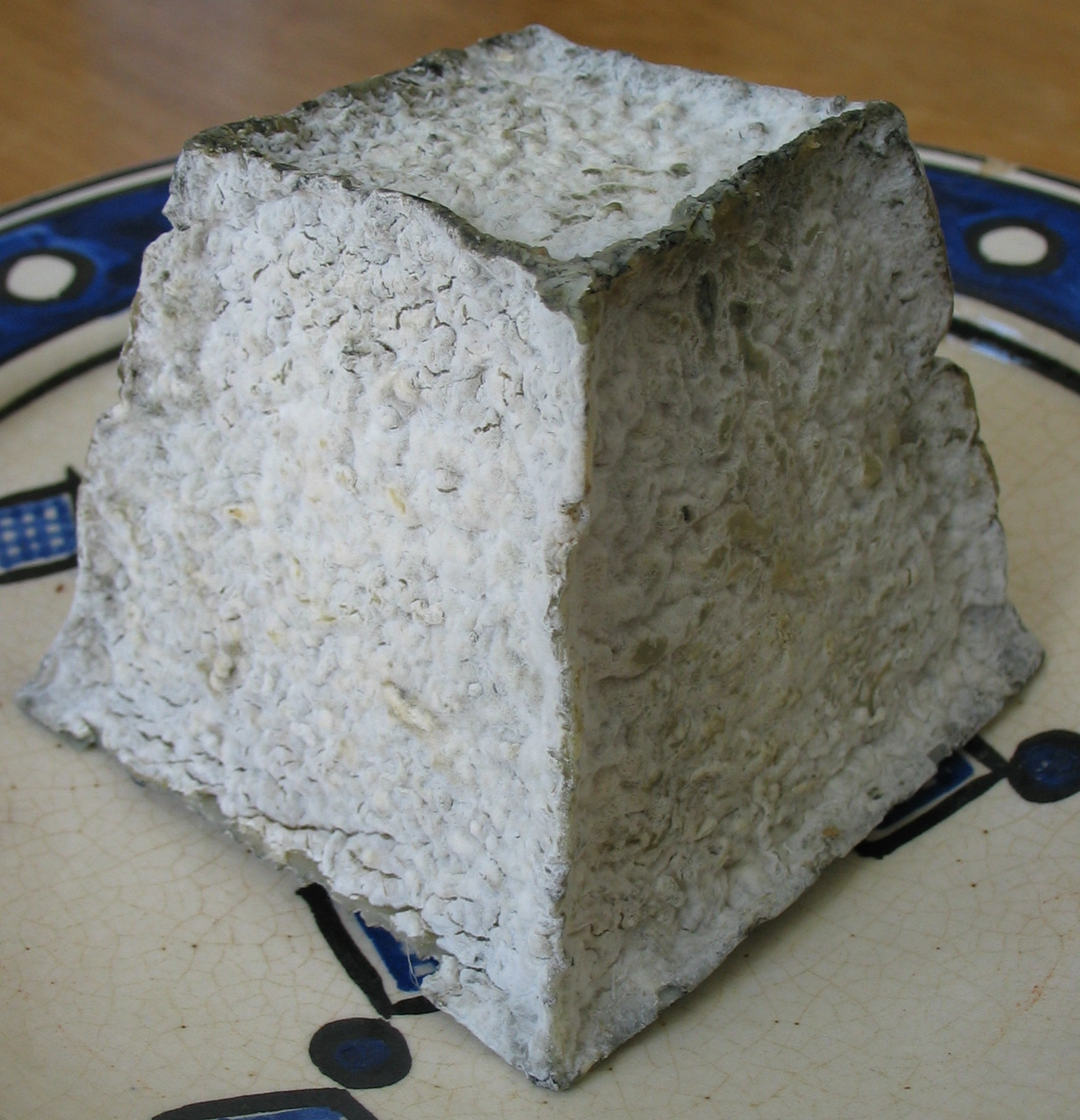 Valençay (French goat cheese).